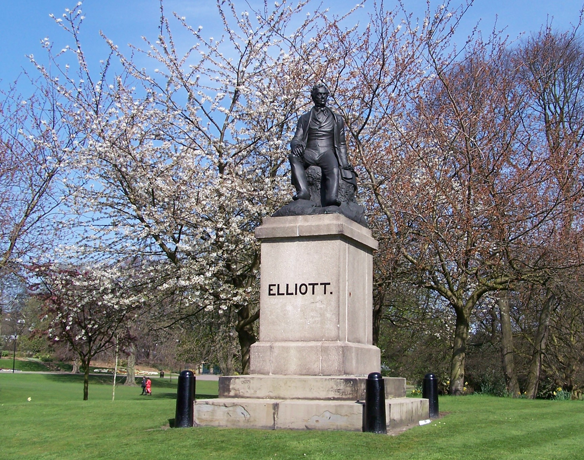 Statue of English poet Ebenezer Elliott (1781-1849), Weston Park, Western Bank, Sheffield, UK (Grid Square 3387)